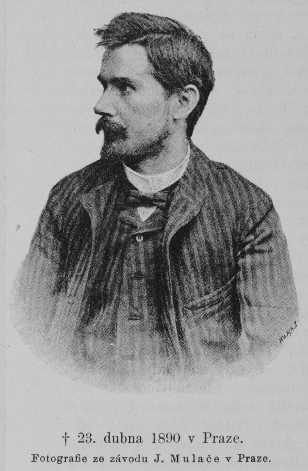 Portrait of Karel Pavlík (1862 - 1890), Czech painter.